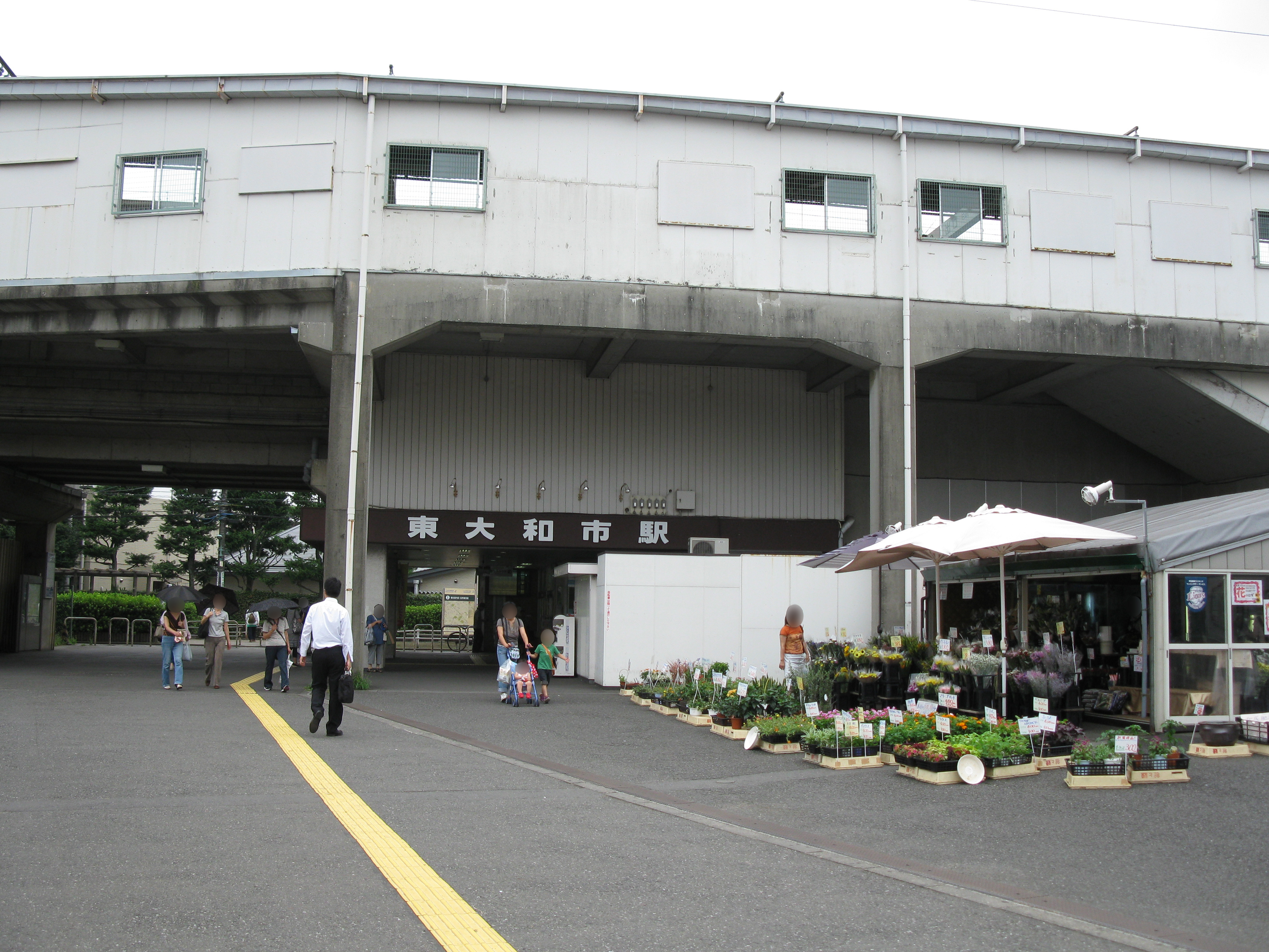 Higashiyamatoshi Station entrance (Seibu Railway Haijima Line)